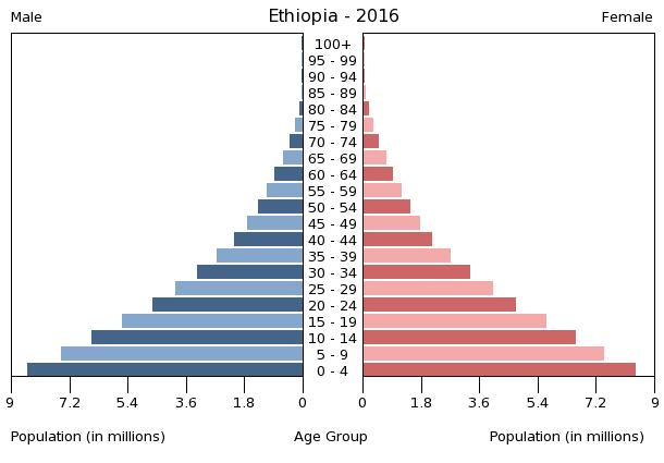 The population pyramid of Ethiopia illustrates the age and sex structure of population and may provide insights about political and social stability, as well as economic development. The population is distributed along the horizontal axis, with males shown on the left and females on the right. The male and female populations are broken down into 5-year age groups represented as horizontal bars along the vertical axis, with the youngest age groups at the bottom and the oldest at the top. The shape of the population pyramid gradually evolves over time based on fertility, mortality, and international migration trends.